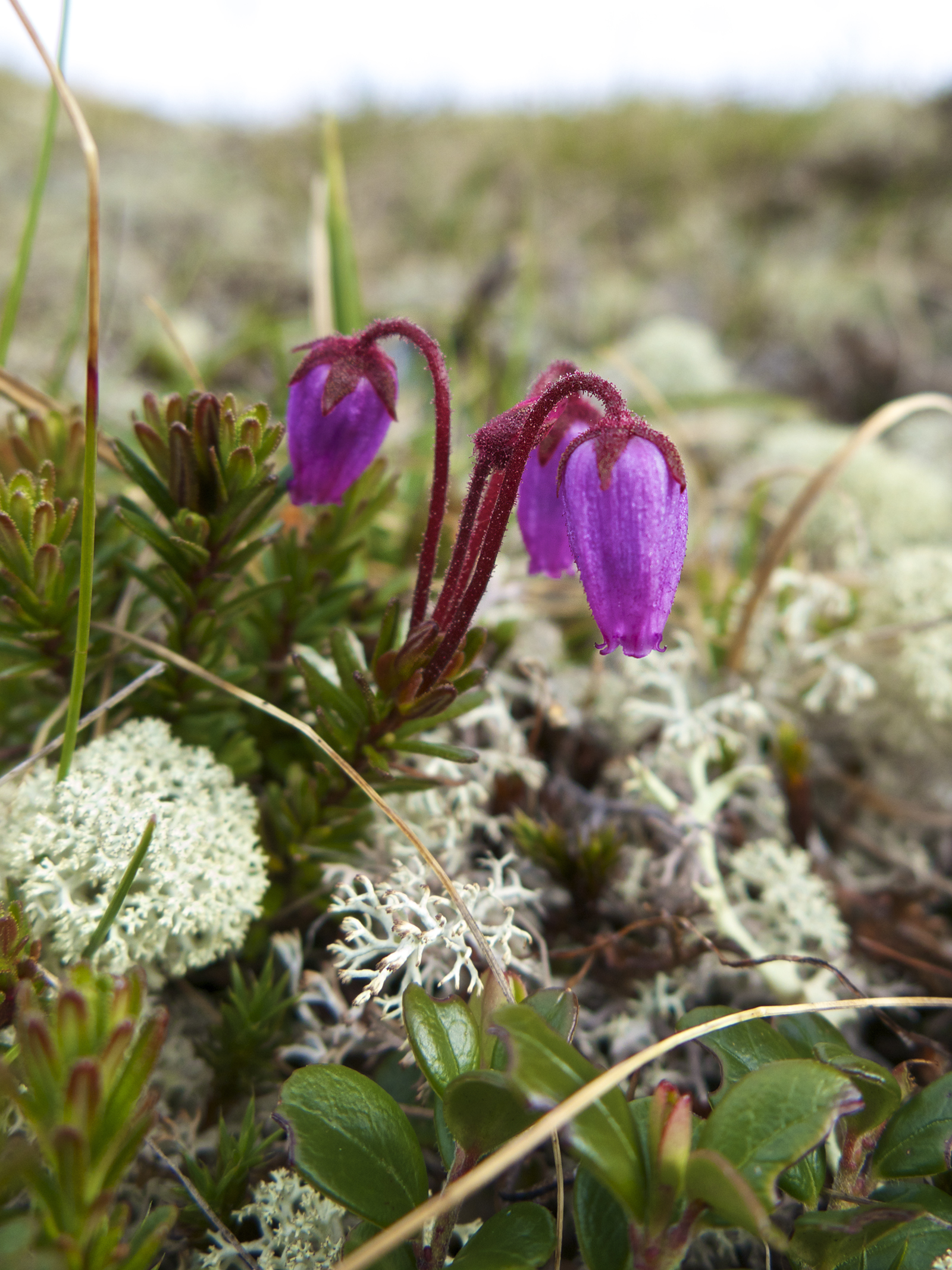 Blue Mountain-heath (Phyllodoce caerulea), Grimsdalen, Rondane National Park, Norway